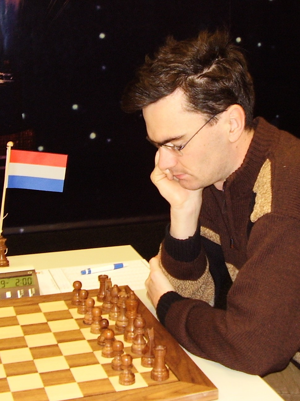 L. Van Wely at Corus tournament, January 2006. Own photo.